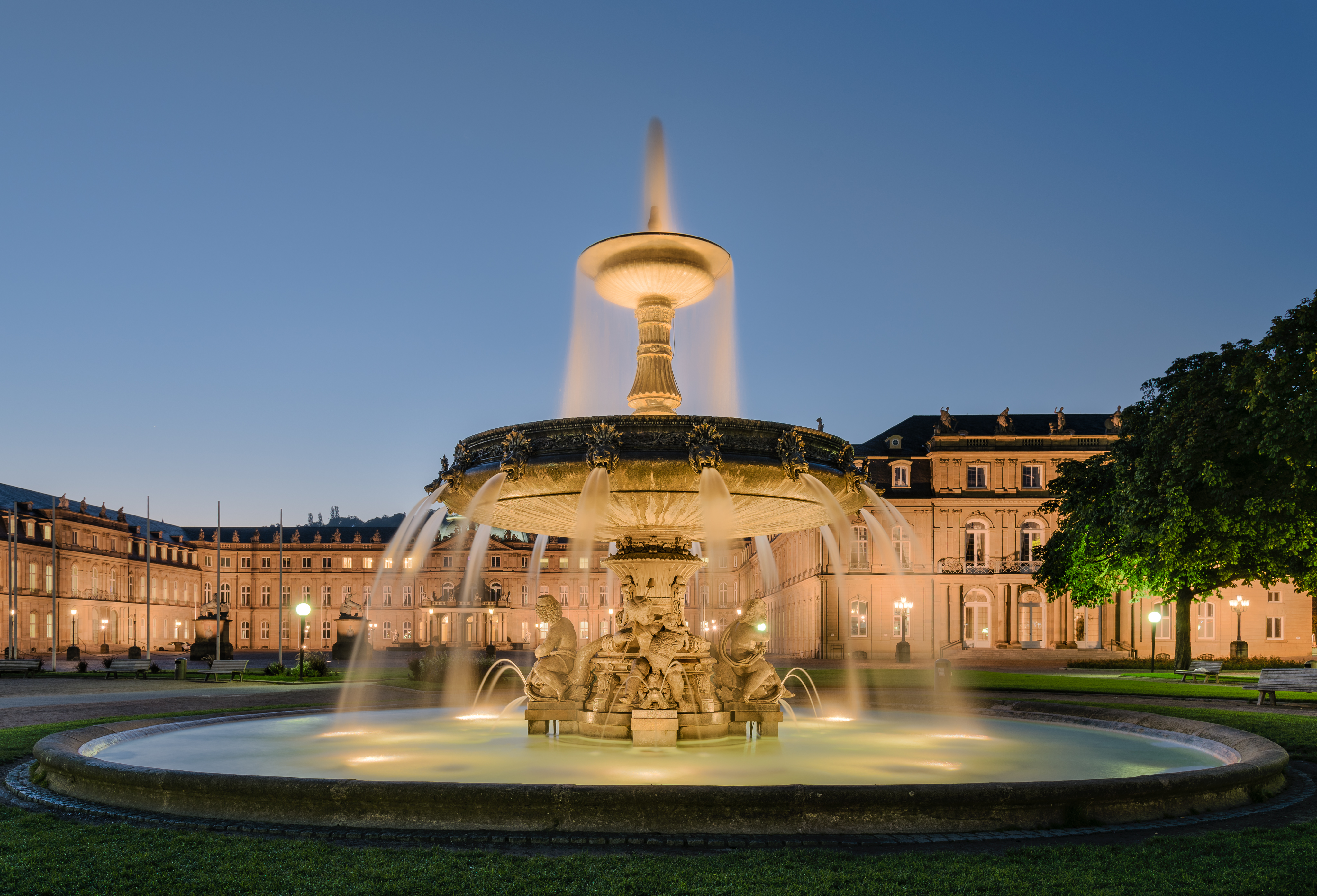 Schlossplatzspringbrunnen (Schlossplatz, Stuttgart, Germany).